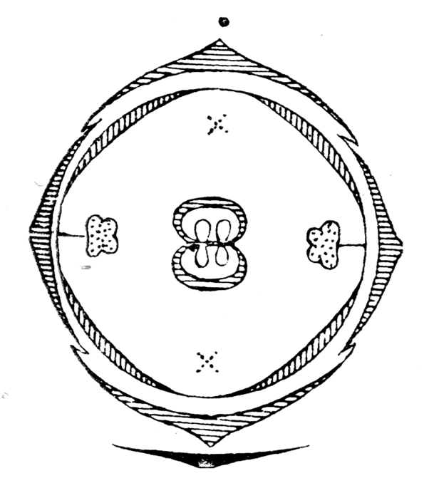 flower diagram of Syringa vulgaris